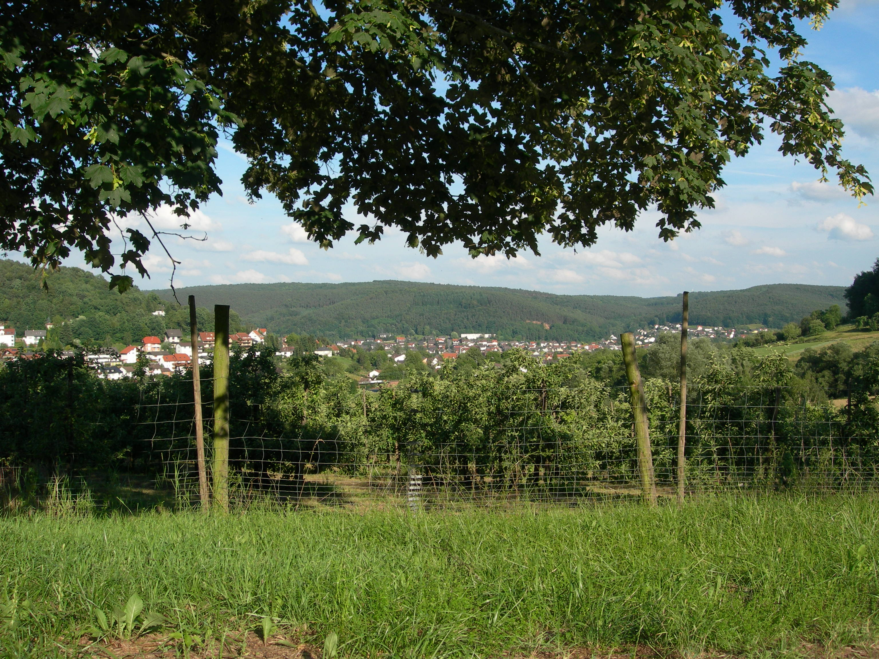 Höchst im Odenwald (Hesse), view from the west